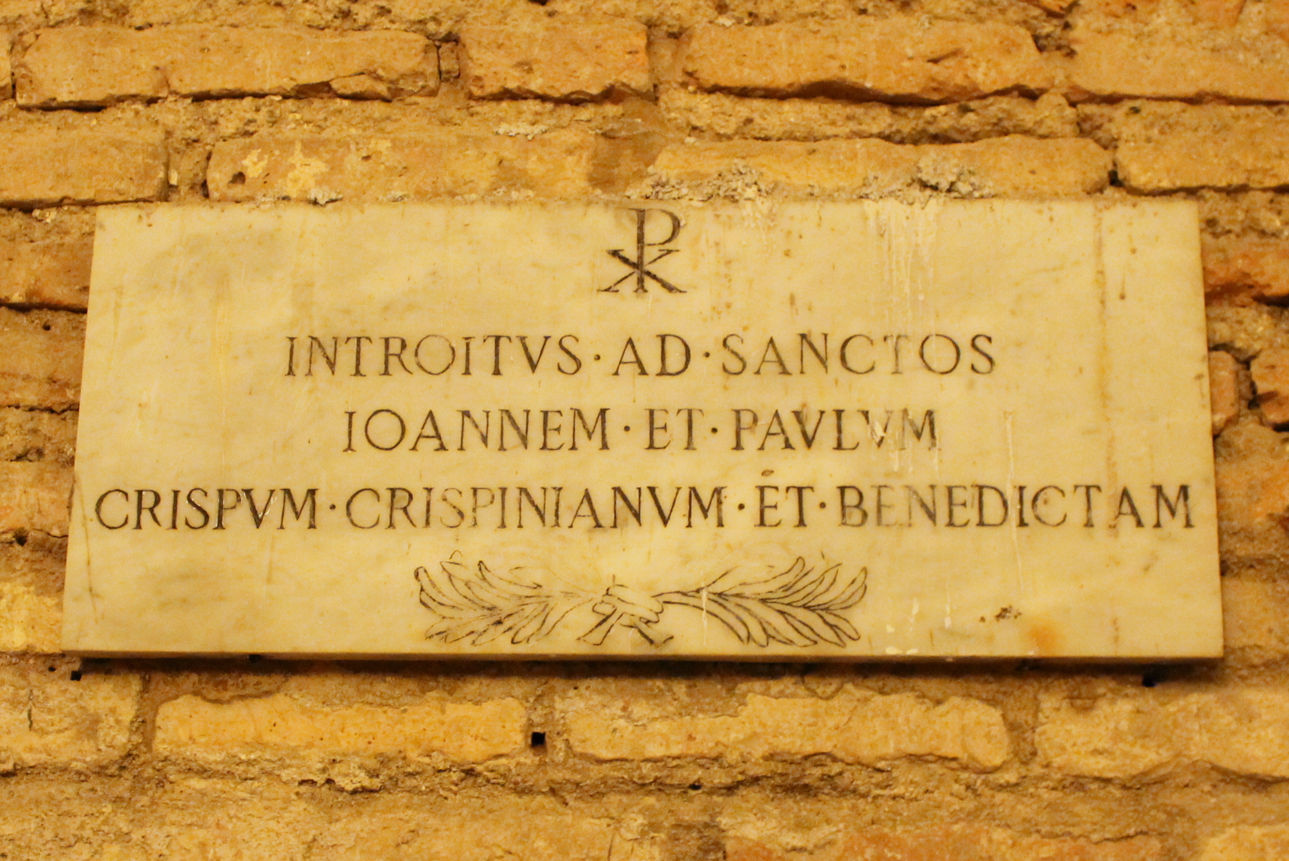 An inscription in the excavations under the Basilica of Saints John and Paul on the Caelian Hill in Rome. In Latin, "Entrance to the Saints John and Paul, Crispus, Crispinianus, and Benedicta."